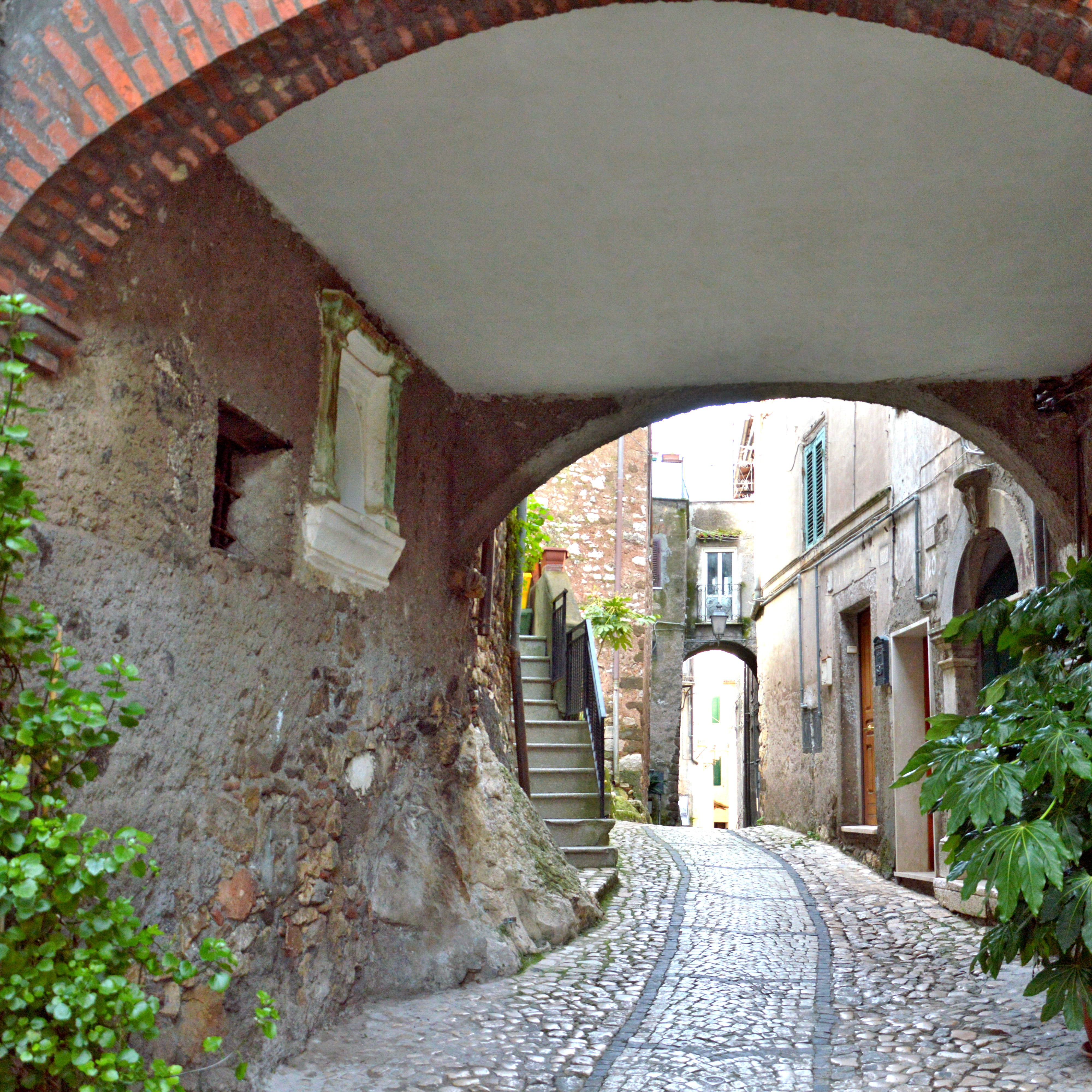 Gavignano (Rm)